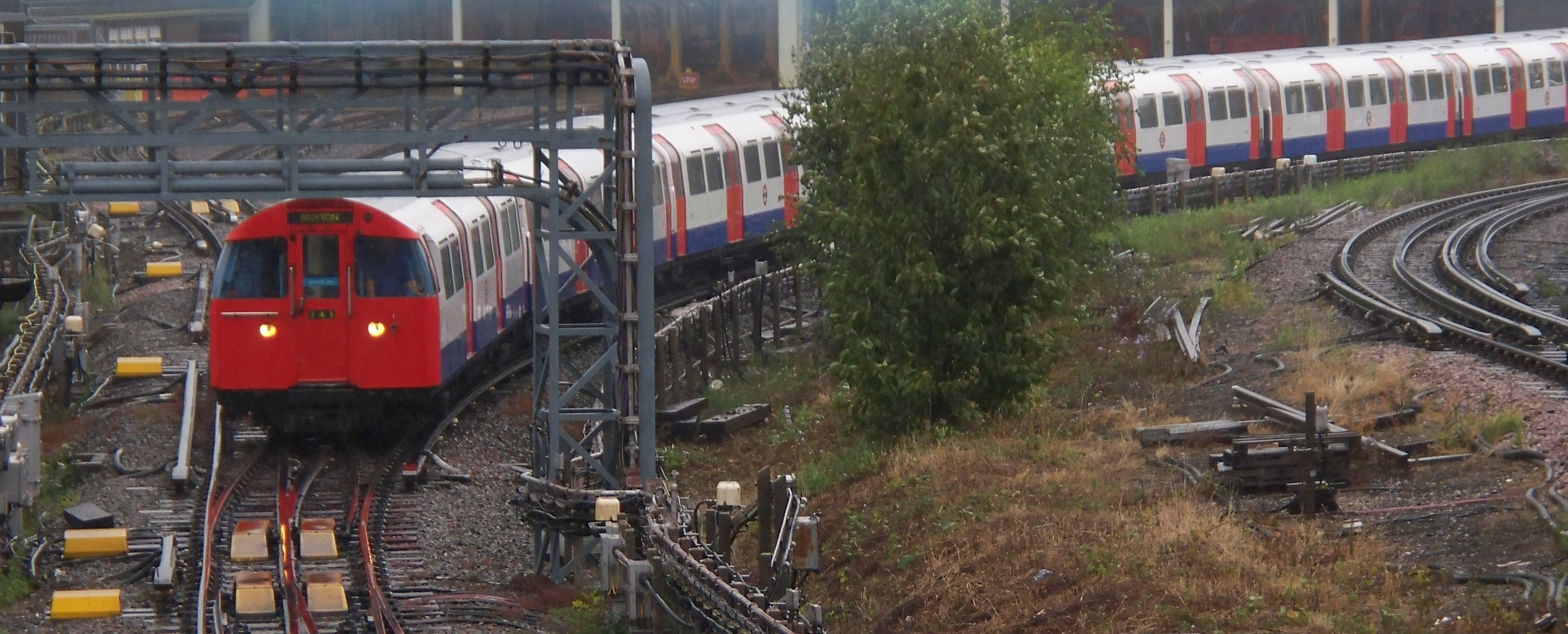 Victoria Line train leaving Northumberland Park Depot